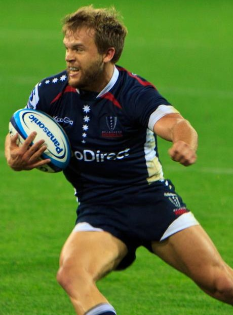 Rabodirect Rebels vs Sharks Rabodirect Rebels vs Sharks in the 2011 Super Rugby competition